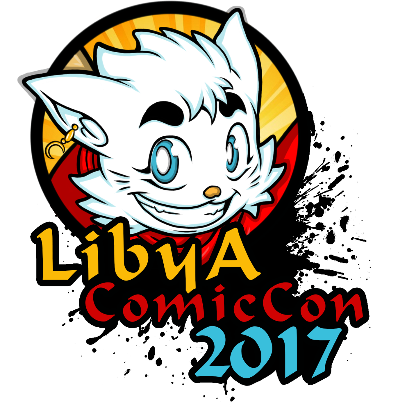 LCC2017THEMELOGONUM